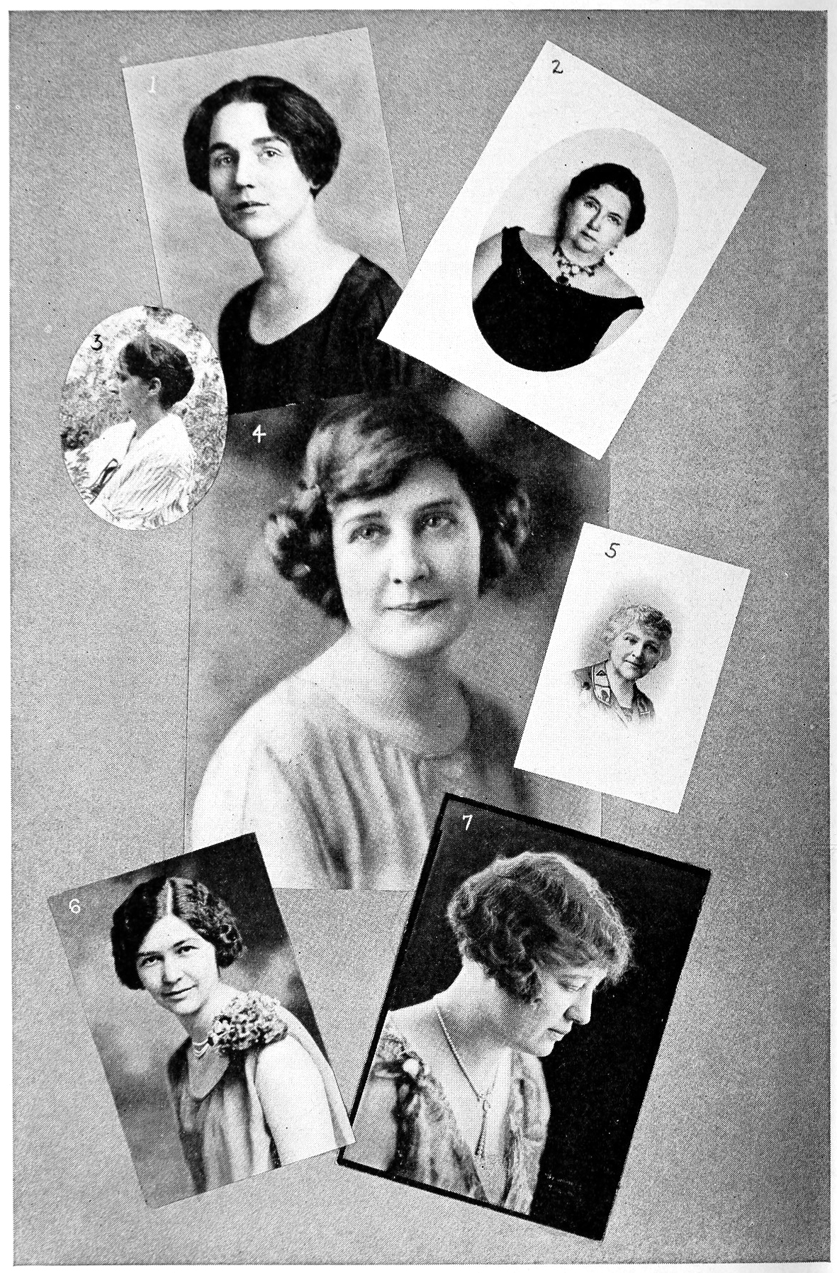 Women of the West; a series of biographical sketches of living eminent women in the eleven western states of the United States of America by Binheim, Max; Elvin, Charles A Publication date 1928 Topics Women Publisher Los Angeles, Calif., Publishers Press Collection uconn_libraries; americana Digitizing sponsor LYRASIS Members and Sloan Foundation Contributor University of Connecticut Libraries Language English 223 p. bports. c24 cm. Bookplateleaf 0003 Call number F595 .B59 Camera Canon EOS 5D Mark II Identifier womenofwestserie00binh Identifier-ark ark:/13960/t22c0sd8h Lccn 28021005 Ocr ABBYY FineReader 8.0 Page-progression lr Pages 284 Possible copyright status Copyright either not claimed or not renewed. Item is in the public domain. Ppi 500 Scandate 20130807152456 Scanner Scanningcenter boston Full catalog record MARCXML